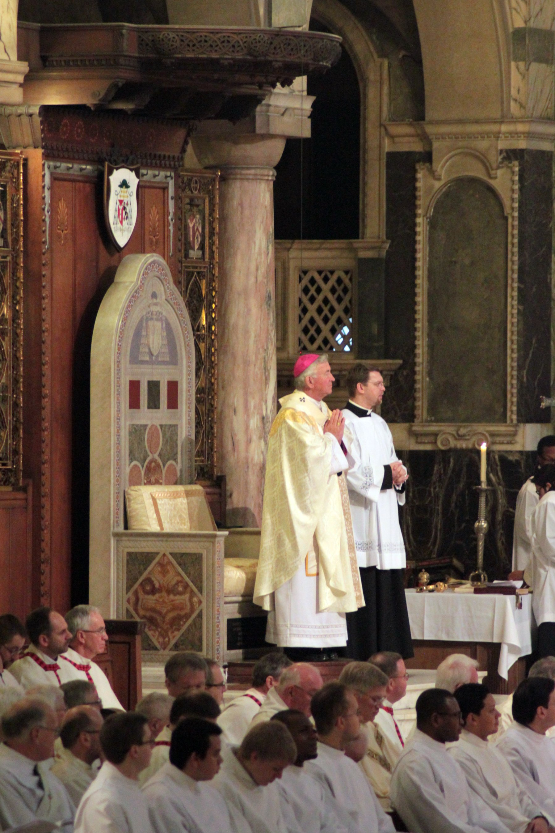 Archbishop Nichols at his cathedra in Westminster Cathedral.